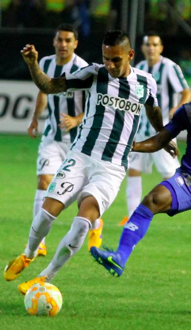 Gilberto Garcia, 2015. This file has been extracted from another file: EMELEC-ATLÉTICO (17414890511).jpg